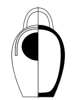 GIF - Amis